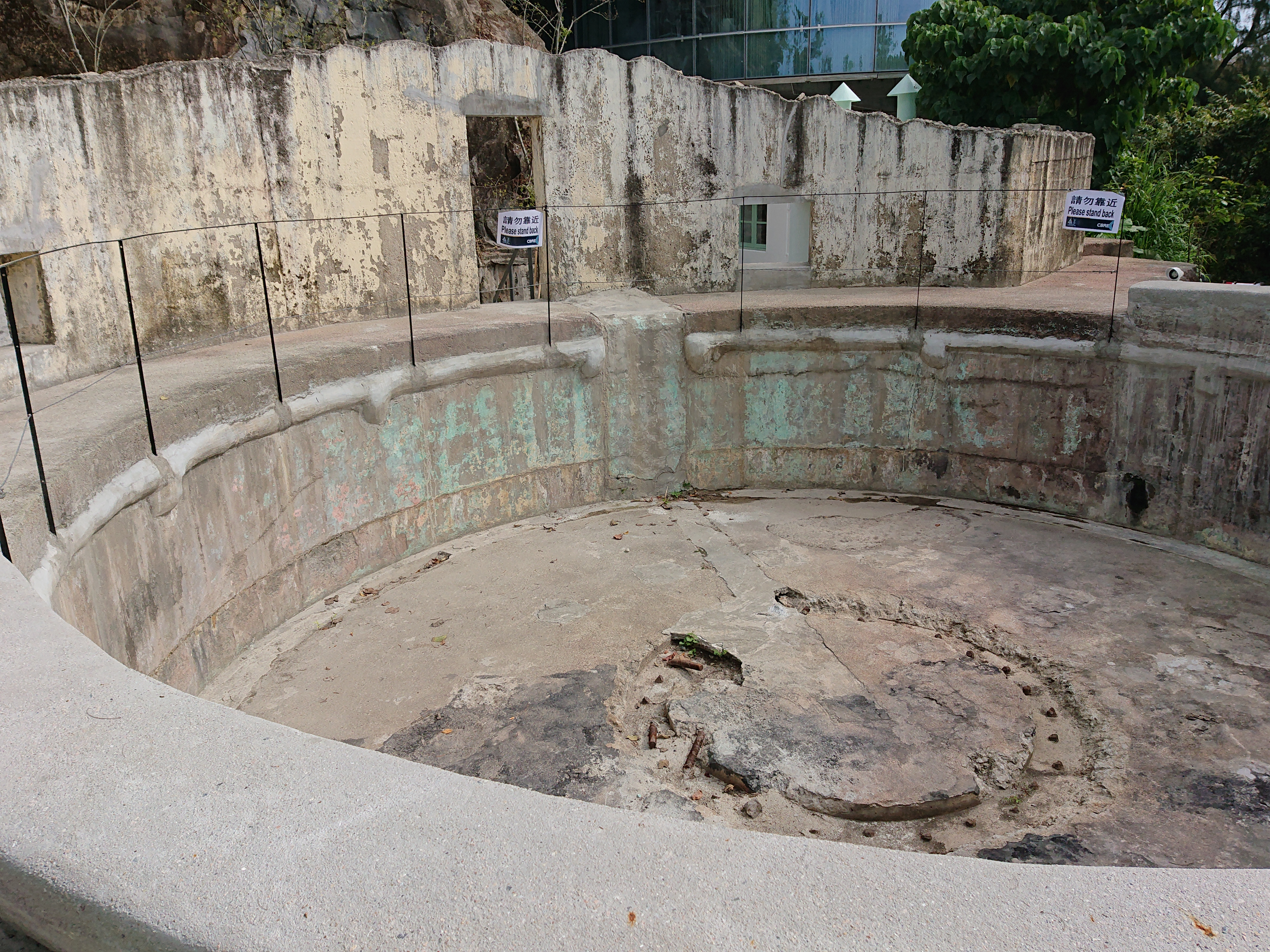 Former Jubilee Battery Site